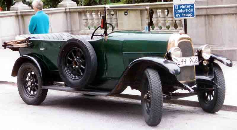 Fiat 501 Torpedo 1925